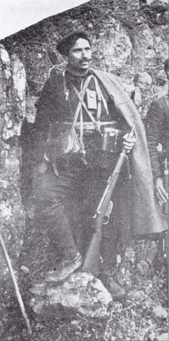 Burlyo